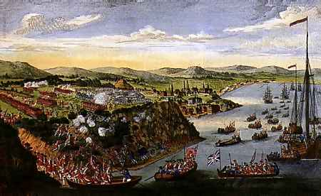 Battle of the Plains of Abraham on september 13th 1759, as drawn by one of General James Wolfe soldiers, captain Hervey Smyth.